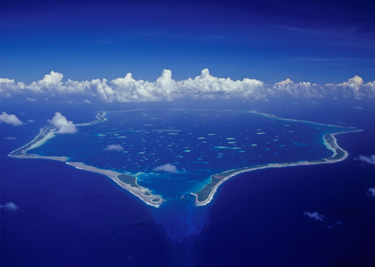 Aerial photograph of the Island of Penrhyn, also known as Tongareva in the Cook Islands, photographed from Air Rarotonga's Embraer Bandeirante Aircraft that infrequently services this remote atoll. (This image is reversed. The shot is from the northwest looking to the southeast. The airstrip which is on the west side of the atoll should be on the right side of this picture. Instead it is on the left.